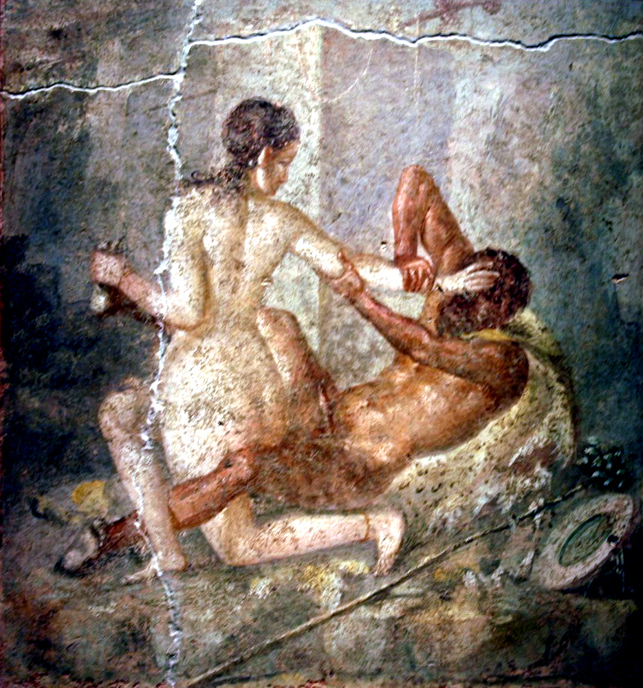 Hermaphroditus struggles with a satyr, fresco from Pompeii 45-79 AD